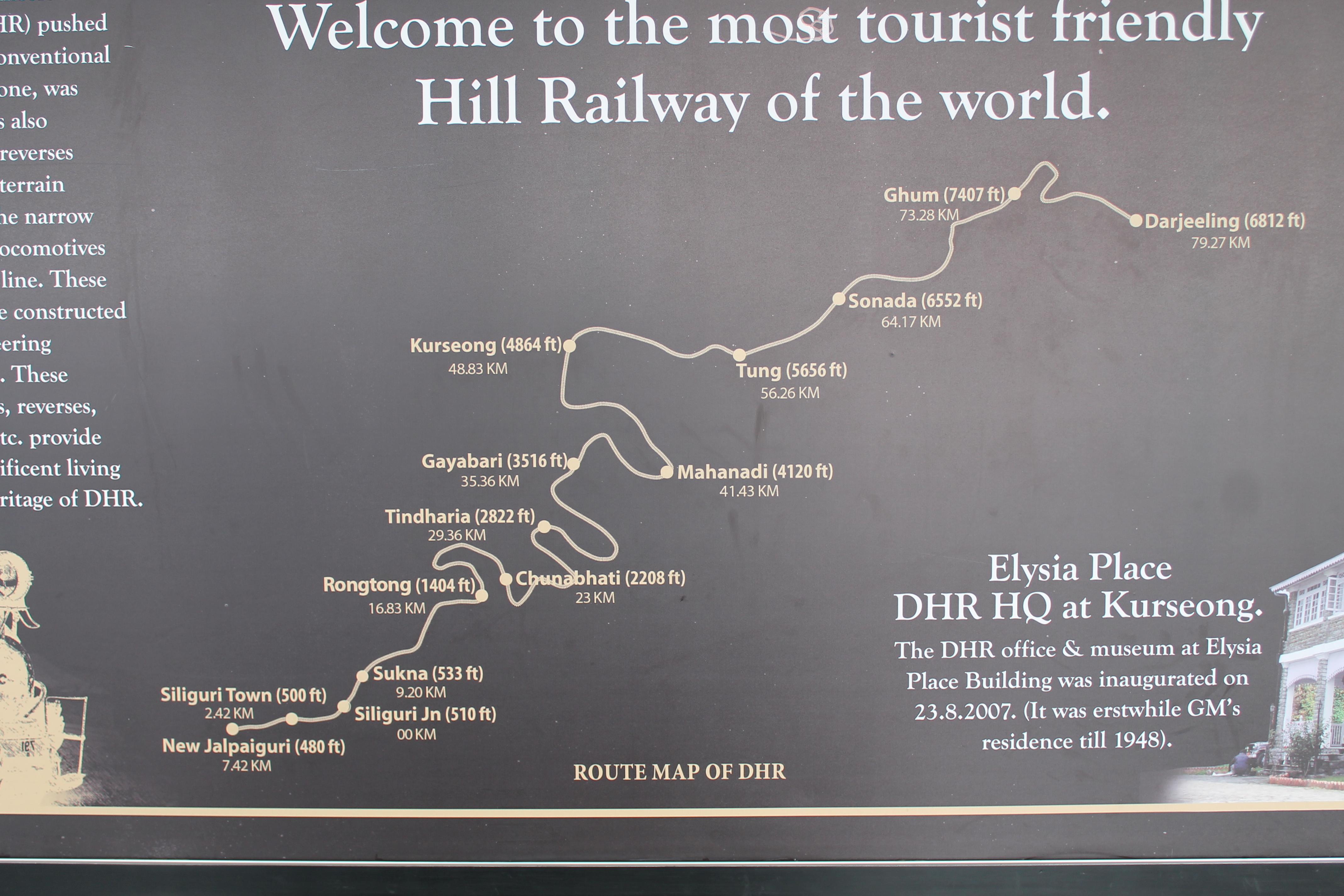 Route Map of Darjeeling Himalayan Railway